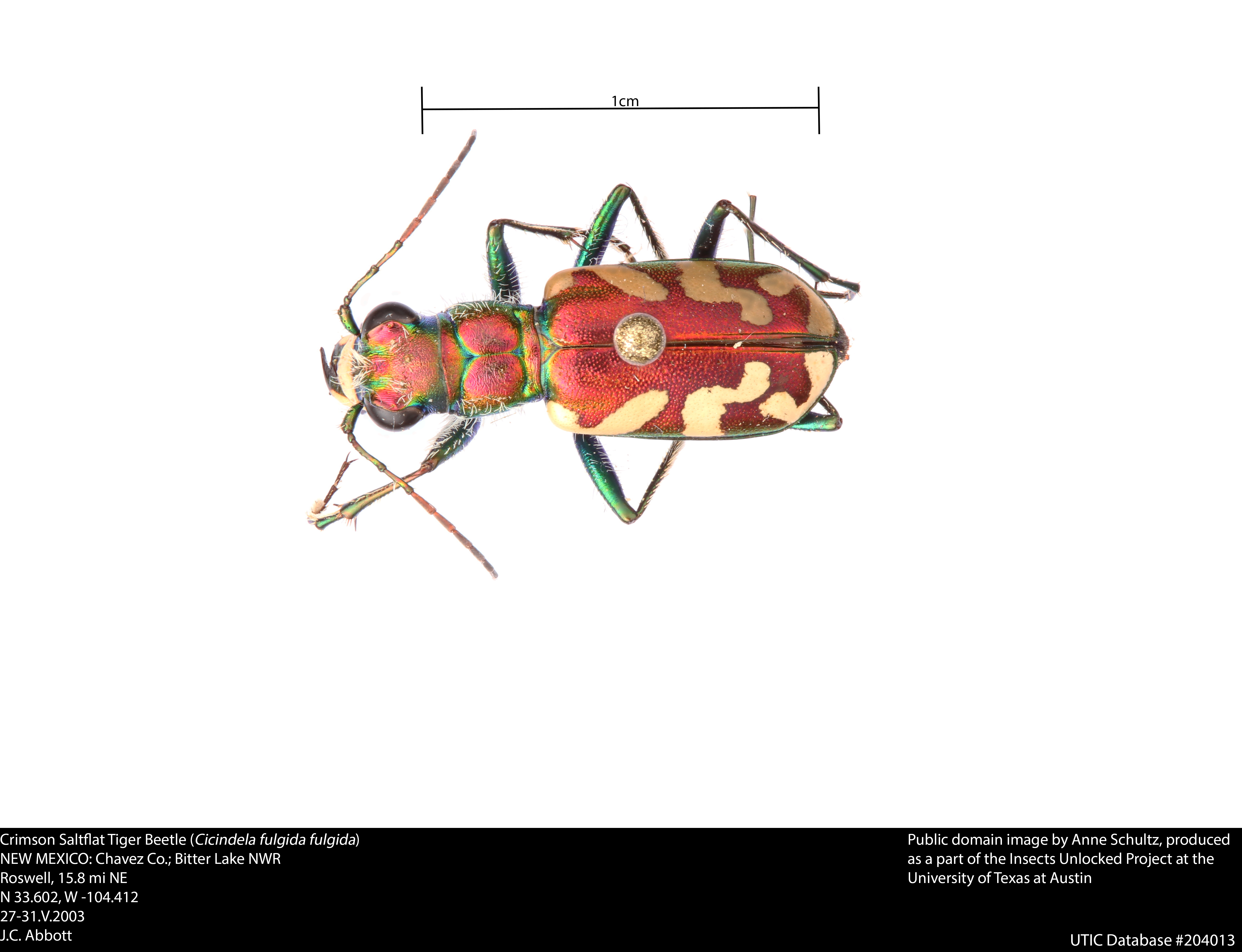 Austin, TX USA A public domain image by Anne Schultz, part of the University of Texas at Austin's "Insects Unlocked" project.